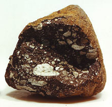 The first known lunar meteorite, Allan Hills 81005.